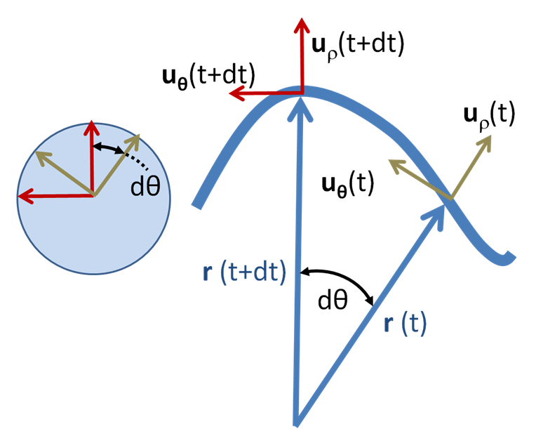 Polar unit vectors for kinematics